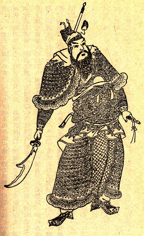 Portrait of Xiahou Yuan from a Qing Dynasty edition of the Romance of the Three Kingdoms